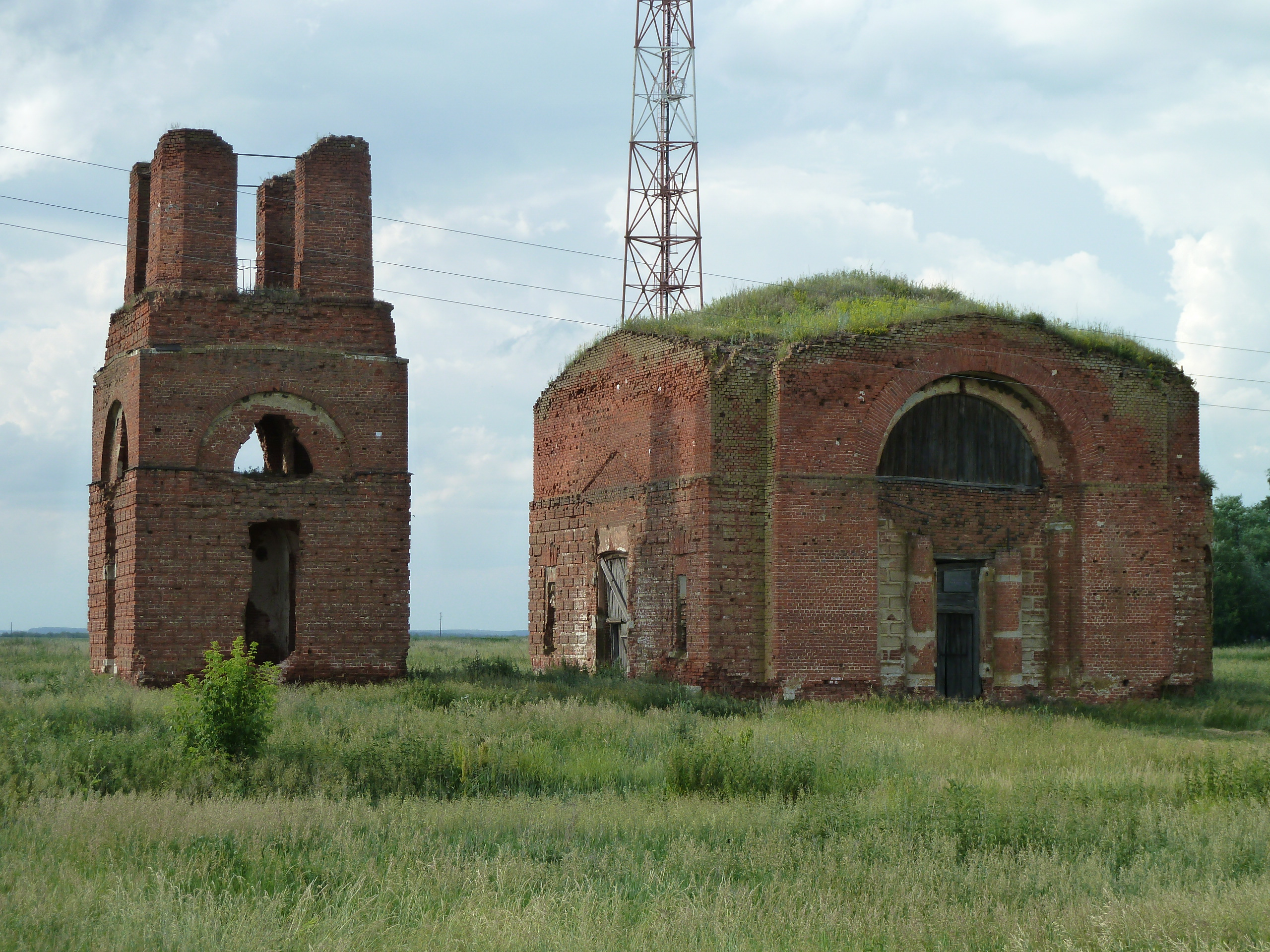 Храм в Новомихайловке